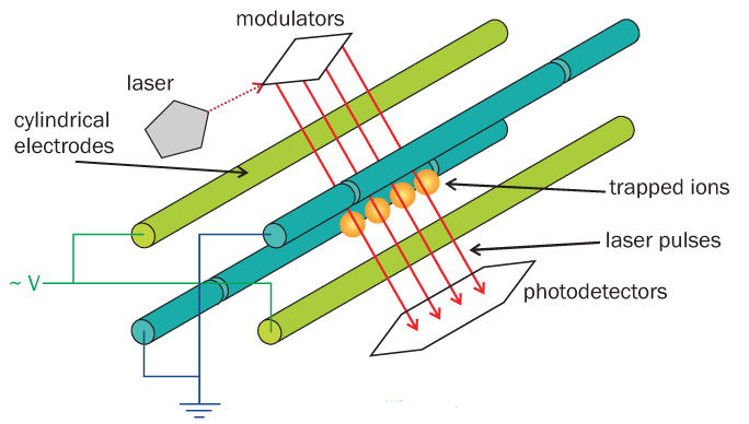 A diagram of the electrode arrangement used in the linear (rf Paul) ion trap quantum computer. The diagram is based on others in literature (e.g. Fig 7.7 in "Quantum Computation and Quantum Information" by Nielsen and Chuang, CUP, 2000), though it was drawn by myself for a poster on Ion Trap Quantum Computing.